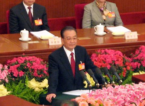 China Premier Wen Jiabao deliver the Report on the Work of the Government at the Third Session of the Eleventh National People's Congress on March 5, 2010